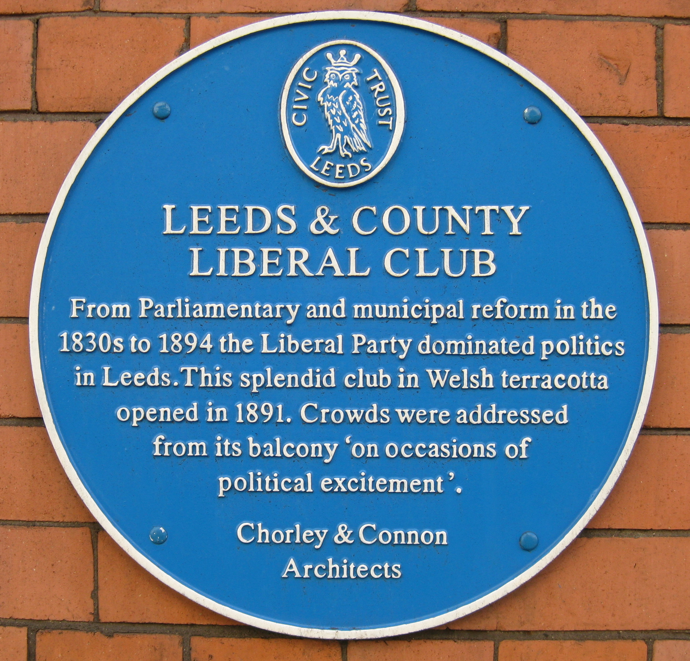 Leeds & County Liberal Club blue plaque, Quebecs Hotel, Quebec Street, Leeds LS1 2HA